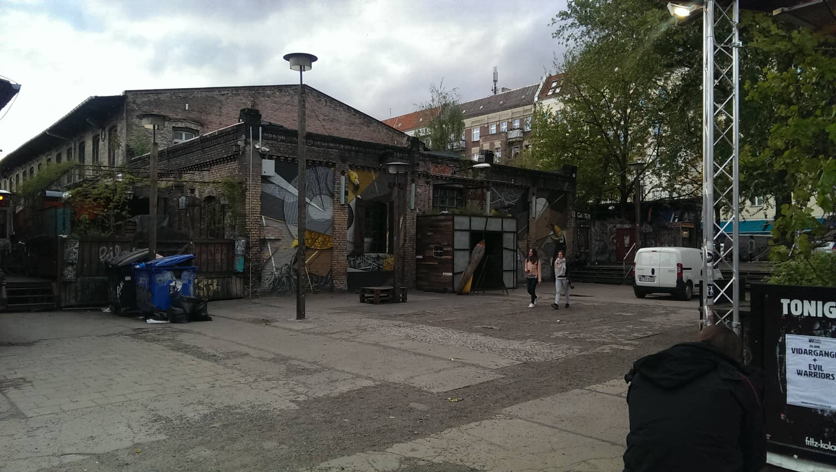 Crack Bellmer Bar at the RAW area